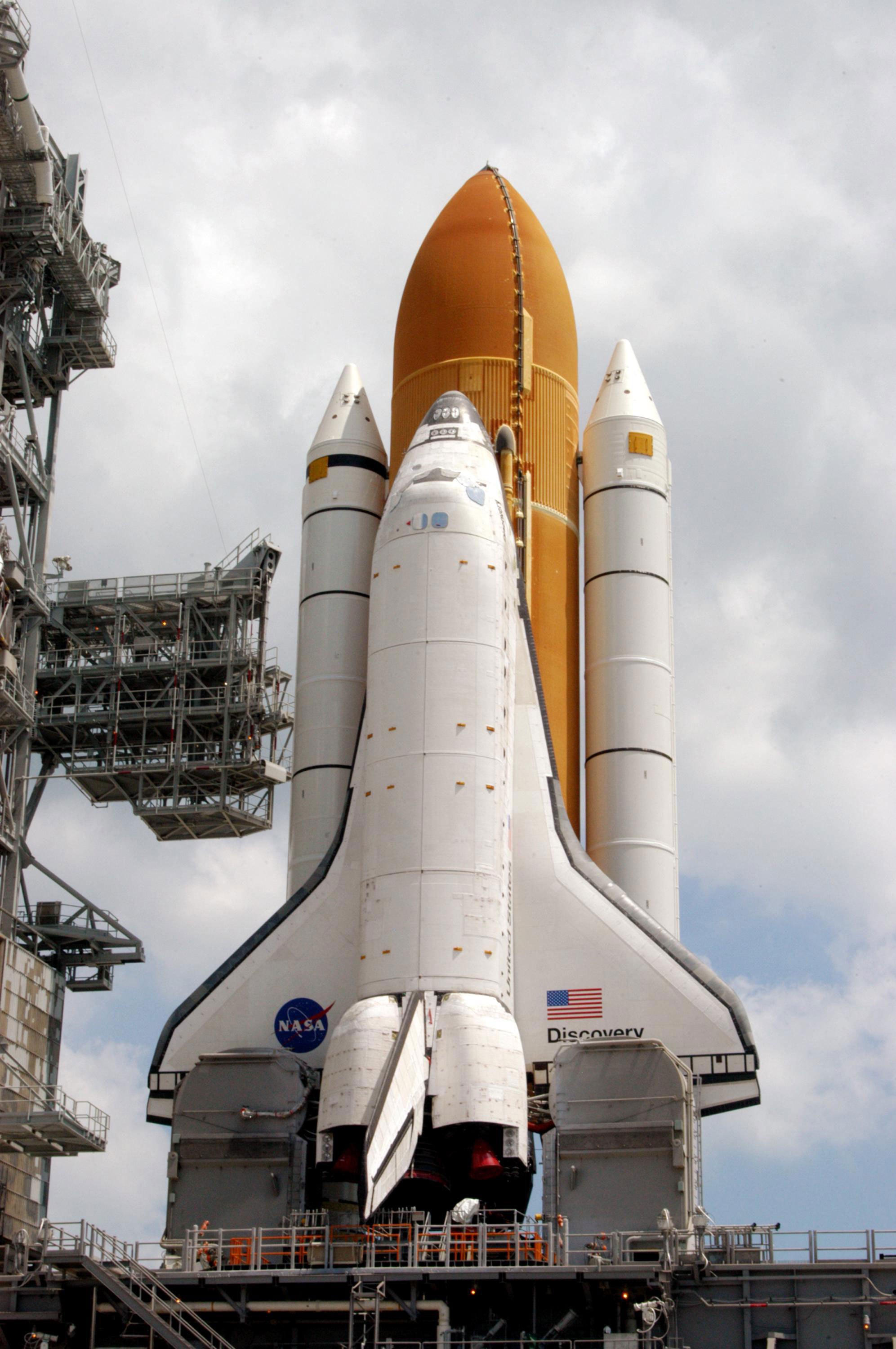 The work to secure Space Shuttle Discovery is under way at Launch Pad 39B following its move from the Vehicle Assembly Building. First motion for the 4.2-mile journey was at 1:58 a.m. EDT.